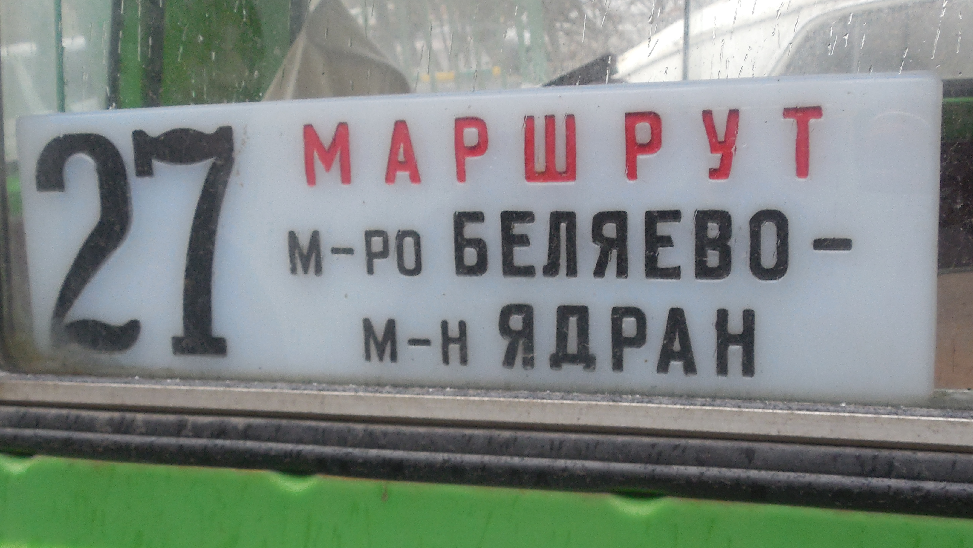 1987 RAF-2203 Moscow bus. Private collection.